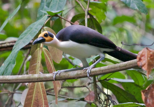 White-necked Rockfowl (Picathartes gymnocephalus) Kambui Hills Forest Reserve, Sierra Leone 29 May 2009